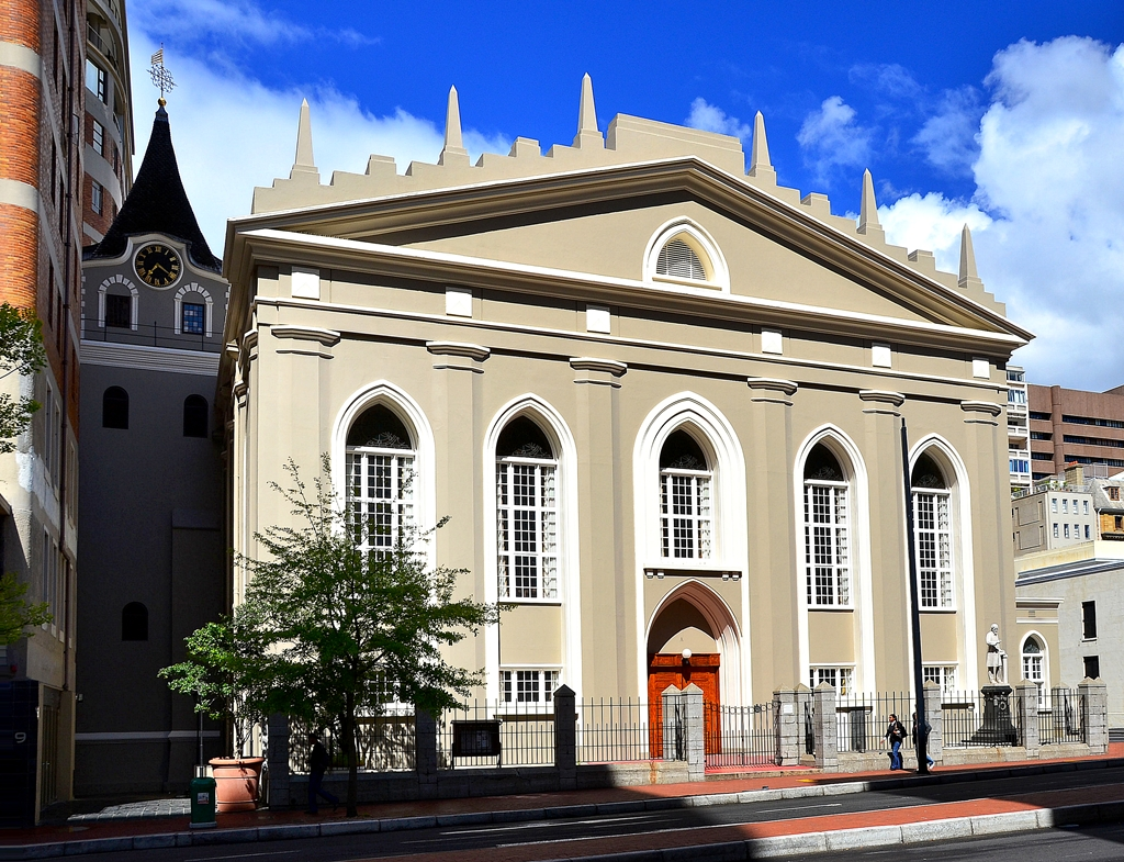 The first church on this land was built in 1678. 1t was replaced by the present building in 1841, but the original tower was retained. The pulpit is the work of Anton Anreith and the carpenter Jacob Graaff and was put into use in 1789.